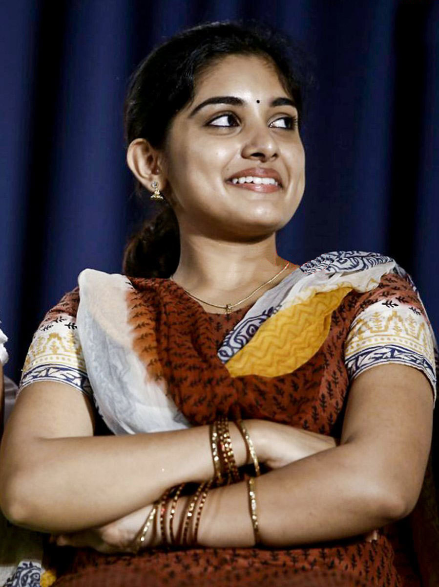 Esther and Nivethaa Thomas at Papanasam Success Meet in July 2015